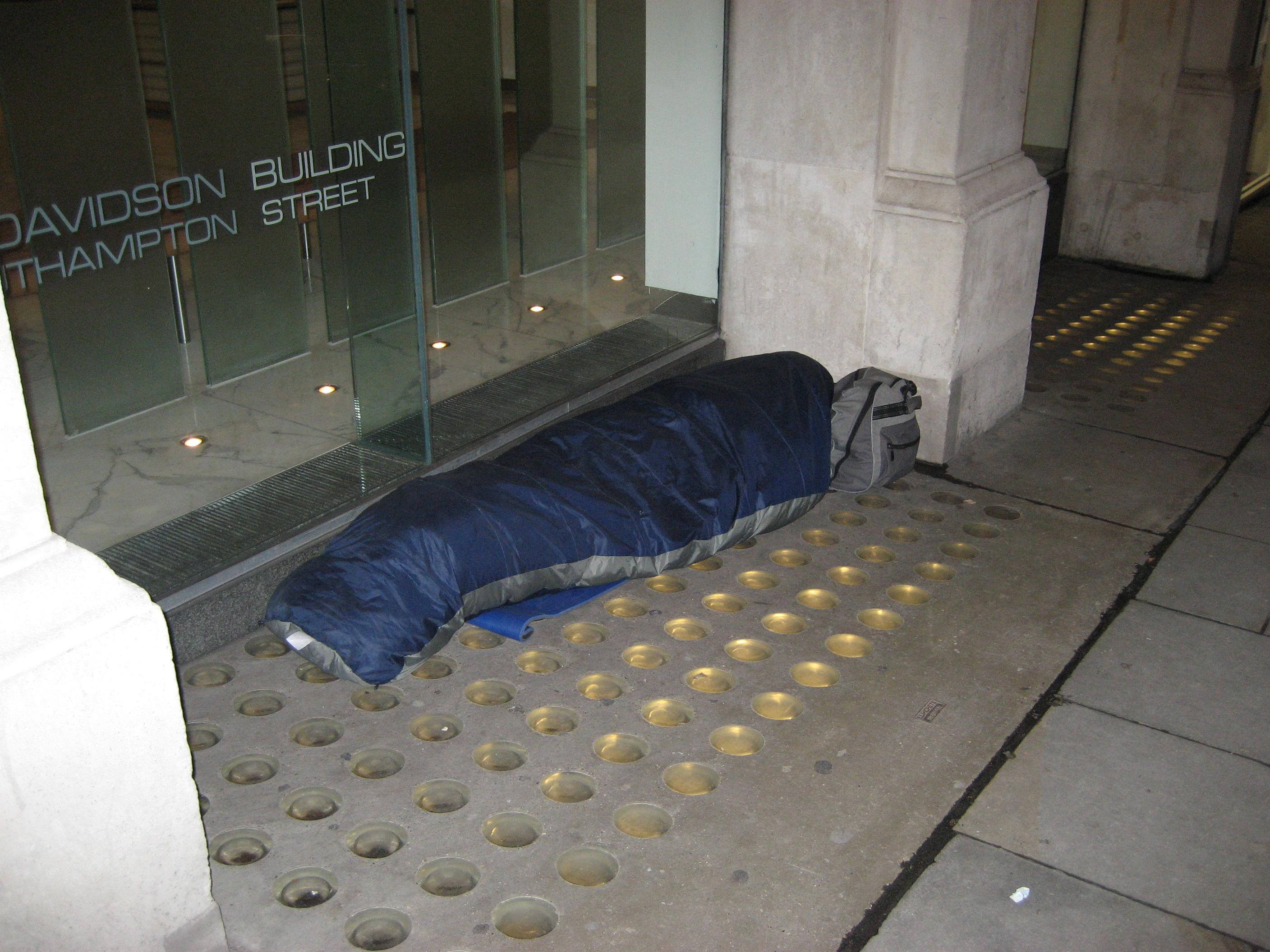 One of the homeless residents of London. Covent garden area. Southampton street (on the Strand).